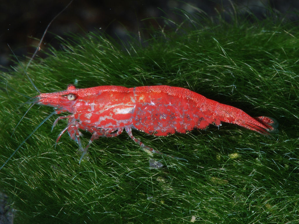 Neocaridina heteropoda var. red is a very easy to keep and breed freshwater shrimp.